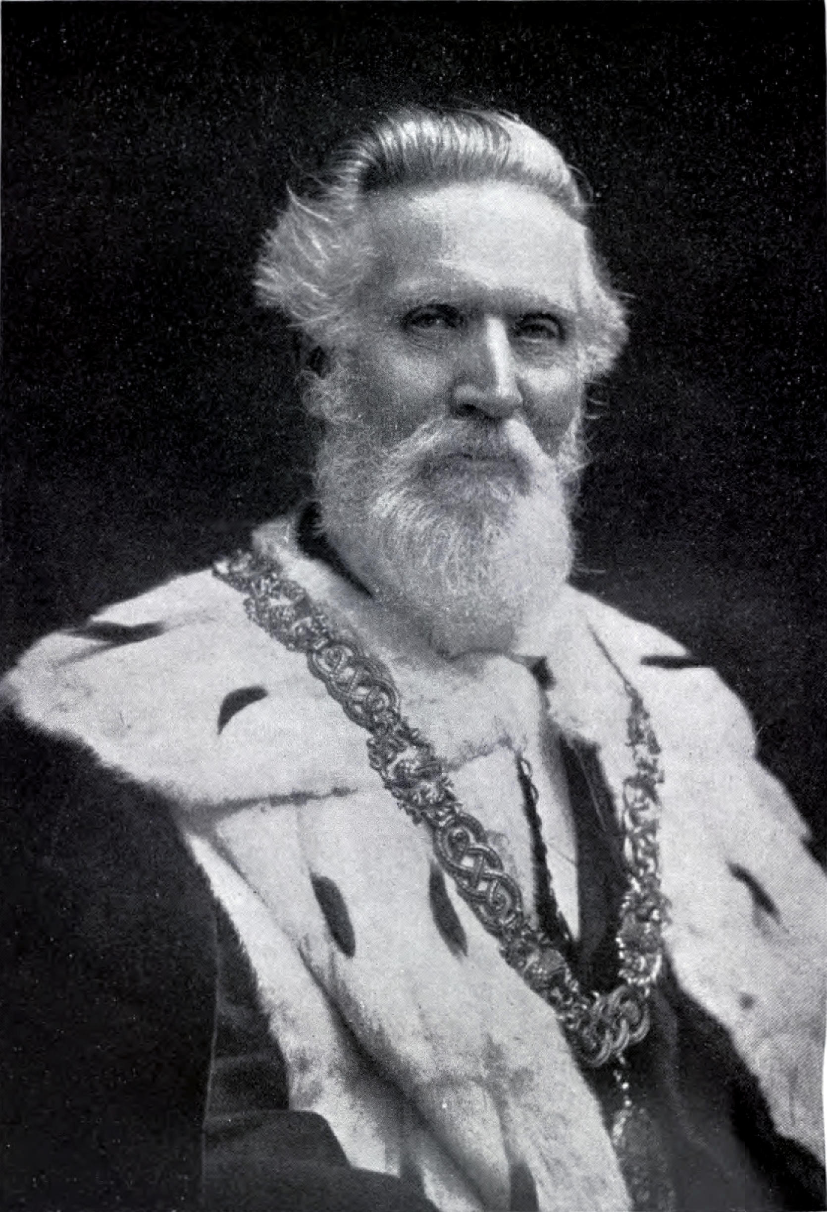 Sir Samuel Chisholm, 1st Baronet (23 September 1836 – 27 September 1923), was a Scottish Liberal politician and Lord Provost (mayor) of Glasgow.